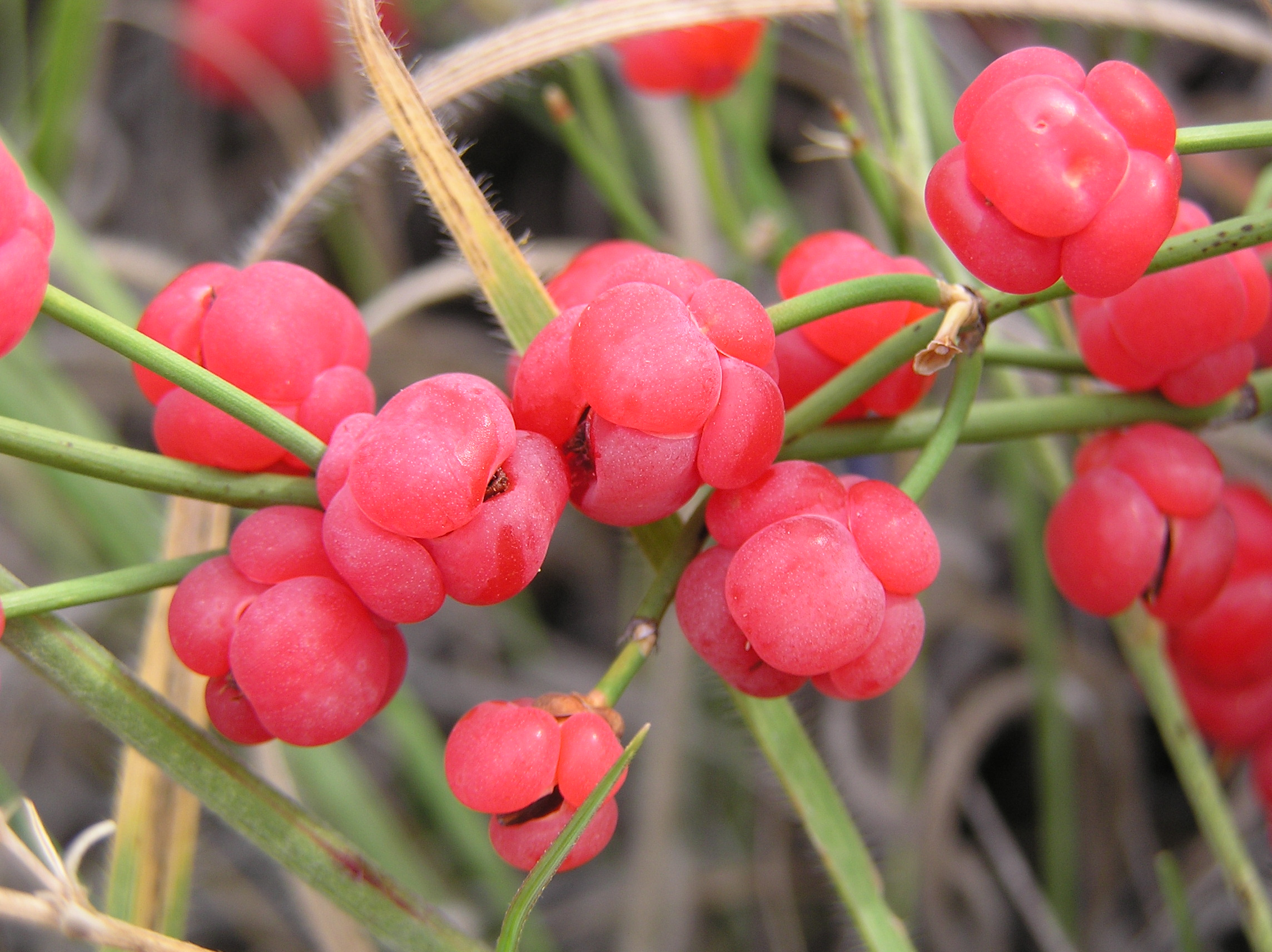 Ephedra distachya subsp. monostachya (L.) Riedl., female plant with ripe cones. Habitat: steppe on a slope. Vicinity of Saratov city, Russia.